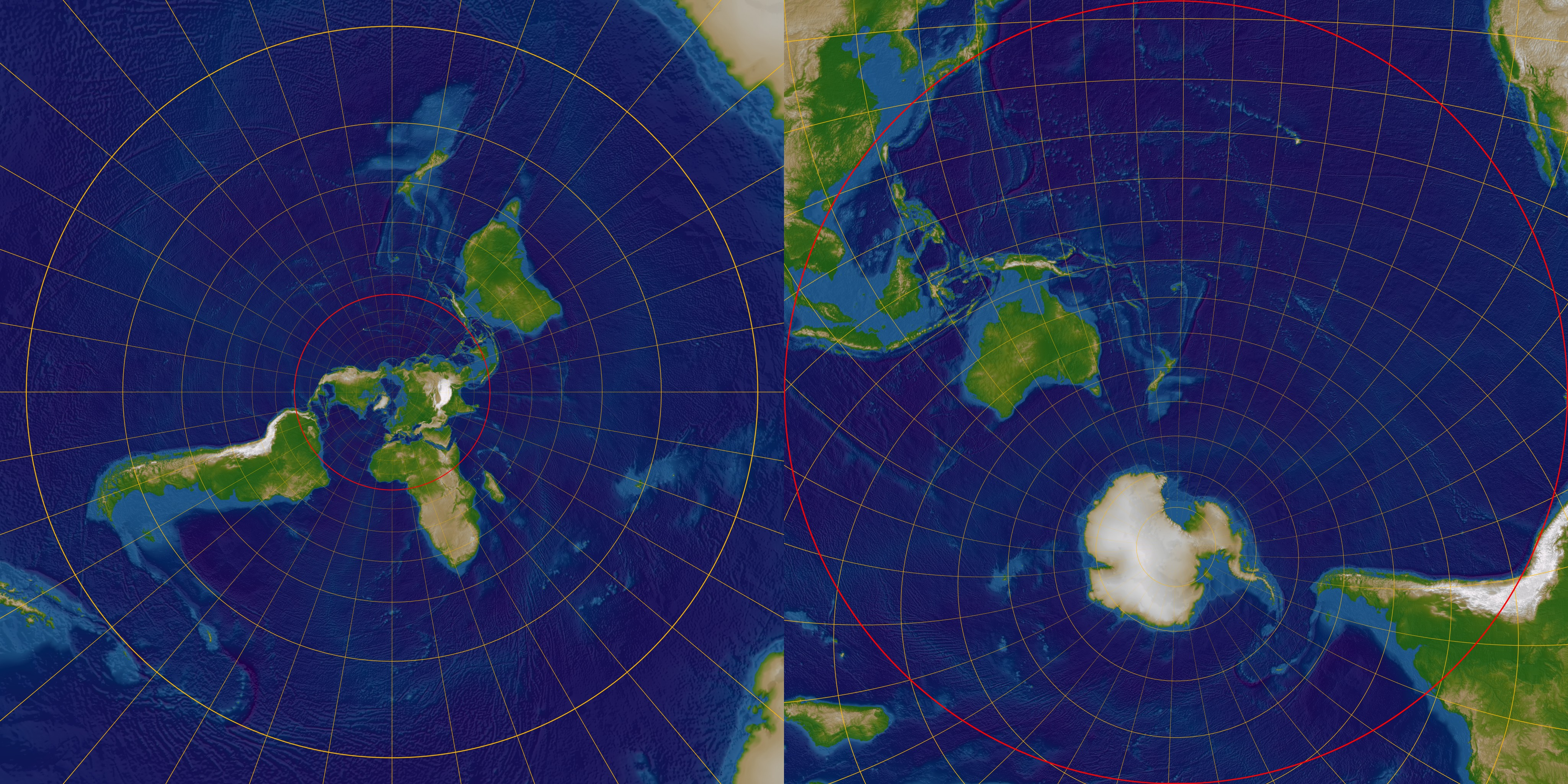 Stereographic projections of the Earth from the north and south poles.